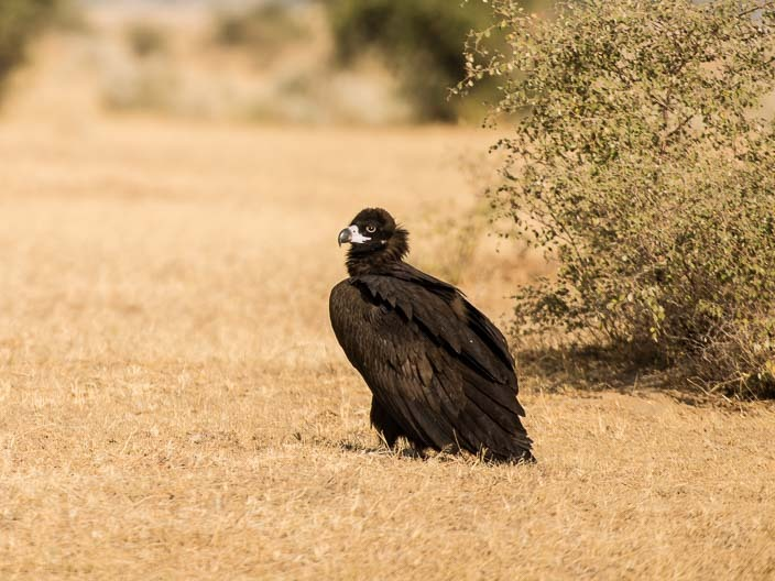 A portrait of Aegypius monachus, also known as Black Vulture taken at Bikaner, Rajasthan, India